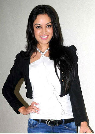 Maryam zakaria sadda adda